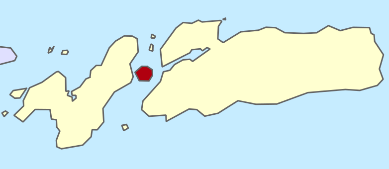 Location of Pura Island in Alor Regency. Derived from .